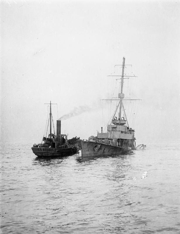 A tug alongside the wreck of British light cruiser HMS Arethusa, after being badly damaged by a mine off Felixstowe.